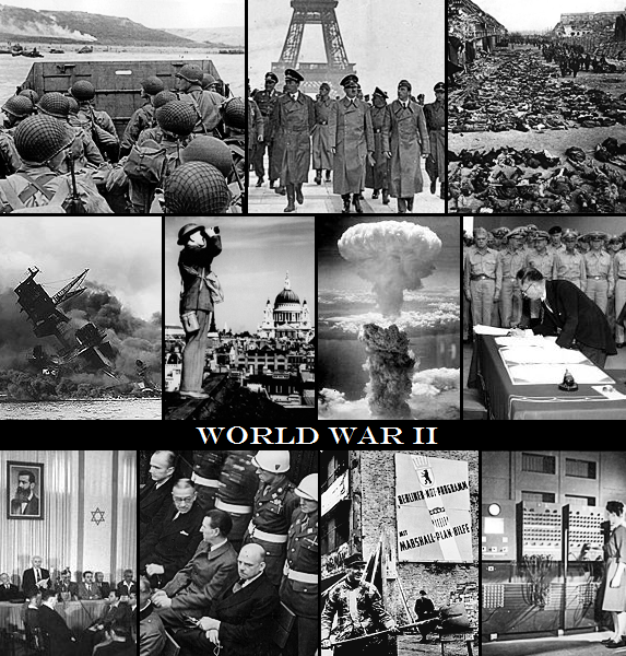 A montage of notable events in the 1940s.